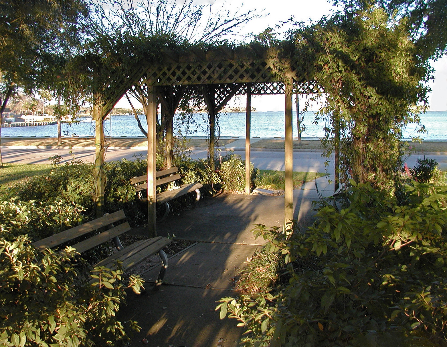 Howard Ward was the first City Manager of Nassau Bay